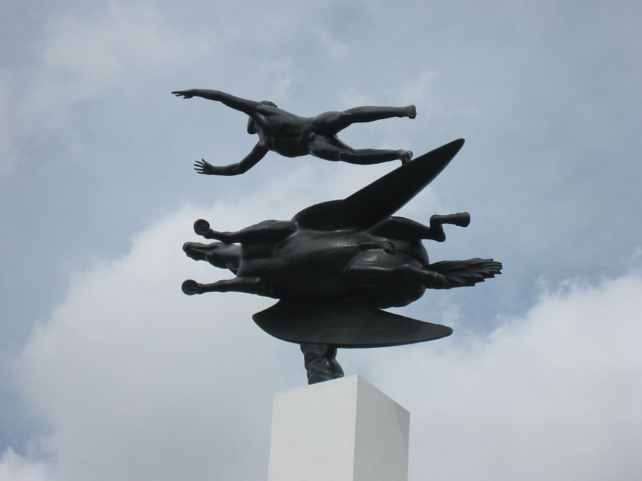 sculpture "Man and Pegasus" by Carl Milles in Hakone Open Air Museum/Japan